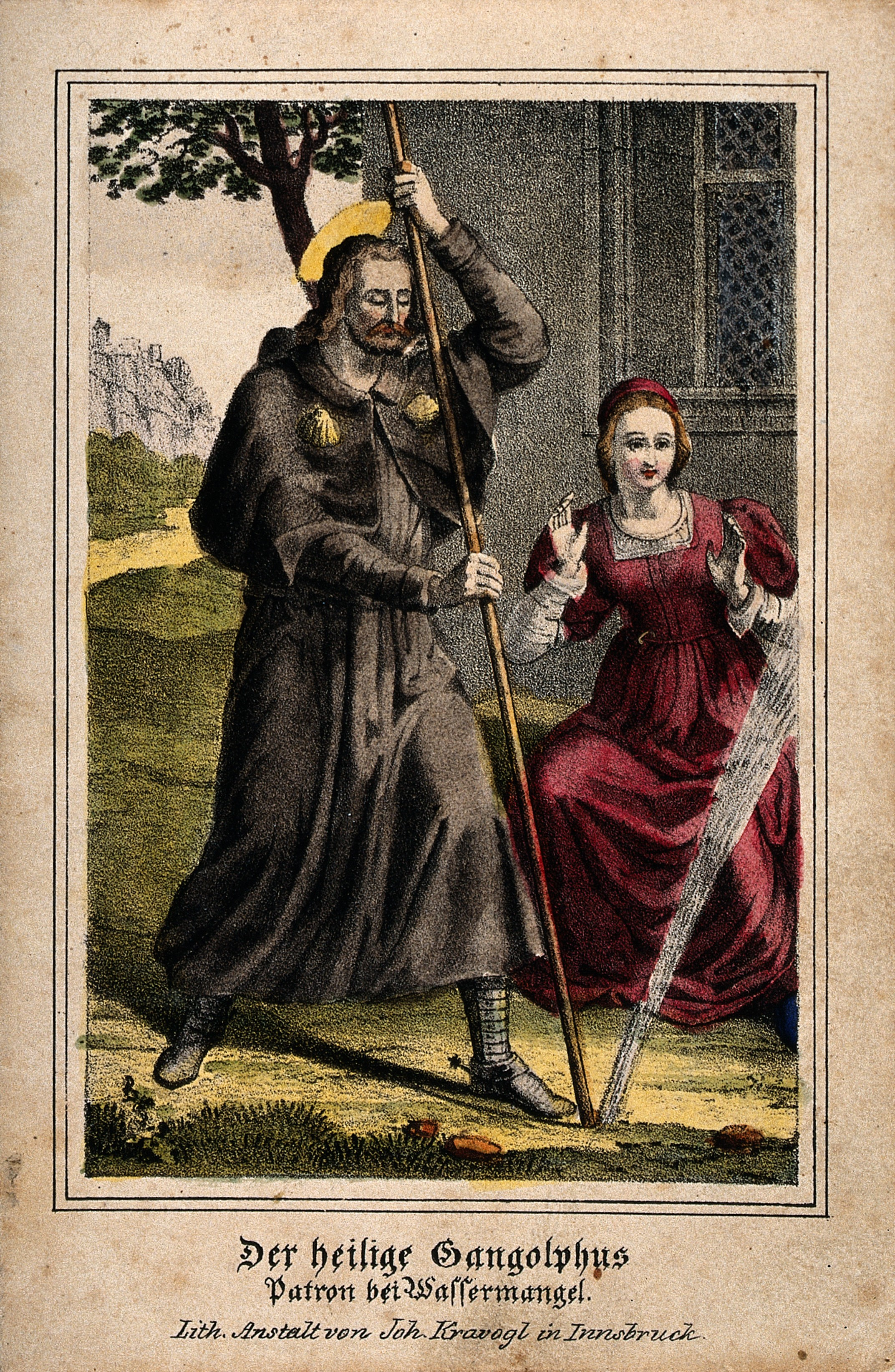 Saint Gangulphus. Coloured lithograph by J. Kravogl. Iconographic Collections